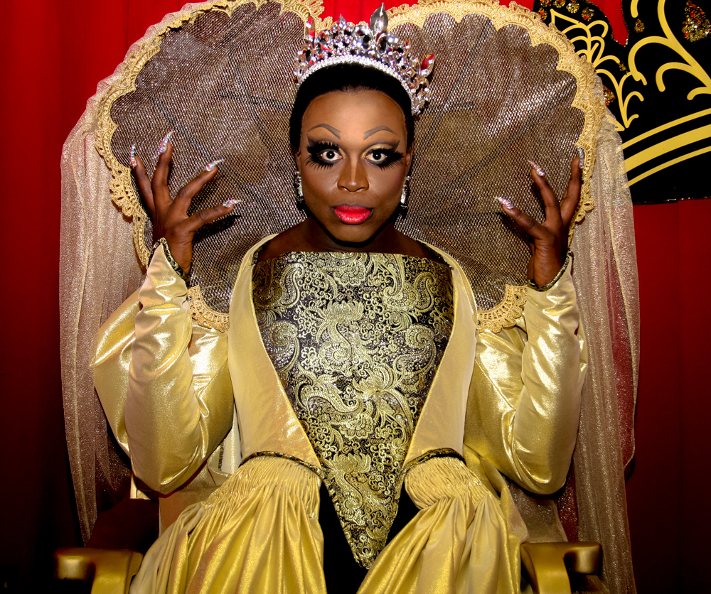 Bob The Drag Queen at RuPauls Dragcon 2017